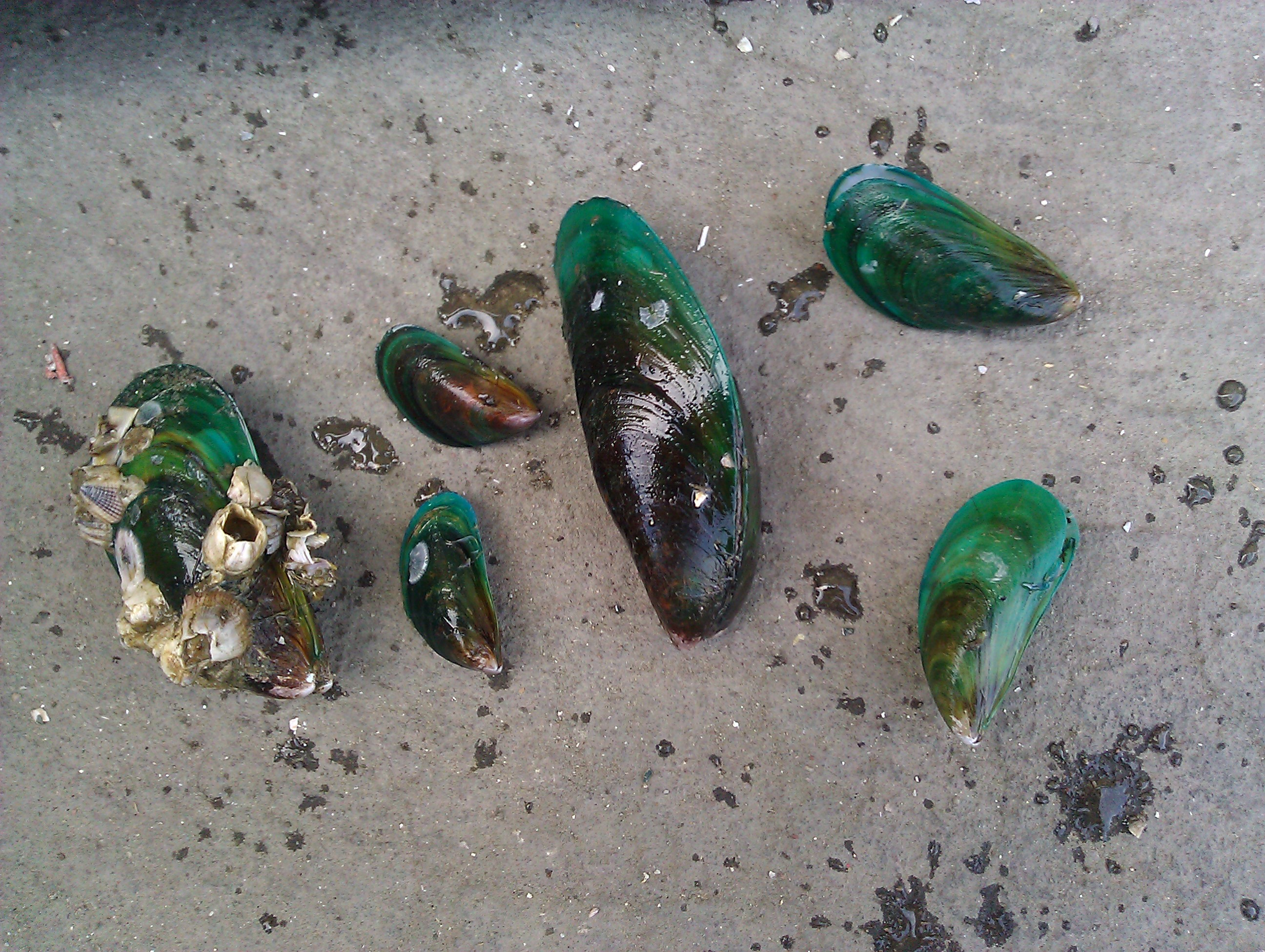 Perna viridis, a green mussel caught in Chonburi, Thailand